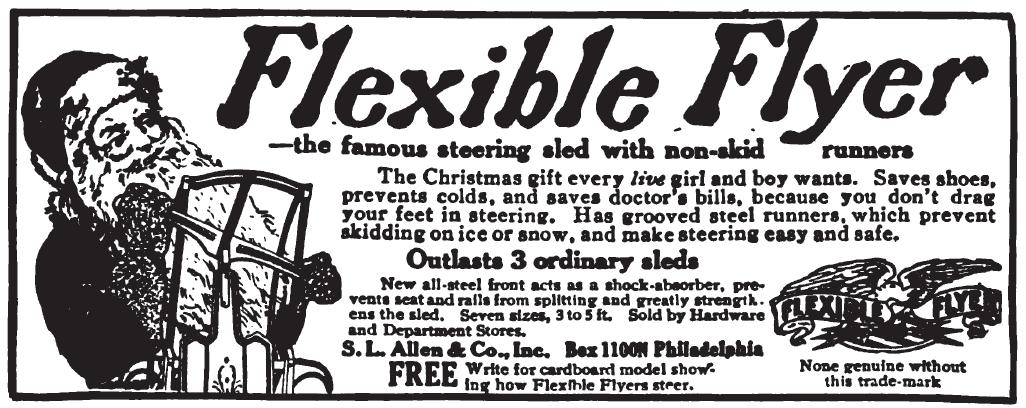 Advertisement for "Flexible Flyer" sled. "-the famous steering sled with non-skid runners The Christmas gift every live girl and boy wants. Saves shoes, prevents colds, and saves doctor's bills, because you don't drag your feet steering. Has grooved steel runners, which prevent skidding on ice or snow, and make steering easy and safe. Outlasts 3 ordinary sleds New all-steel front acts as a shock-absorber, prevents seat and rails from splitting and greatly strengthens the sled. Seven sizes, 3 to 5 ft. Sold by Hardware and Department Stores. S.L. Allen & Co., Inc. Box 1100N Philadelphia FREE Write for cardboard model showing how Flexible Flyers steer. None genuine without this trade-mark"